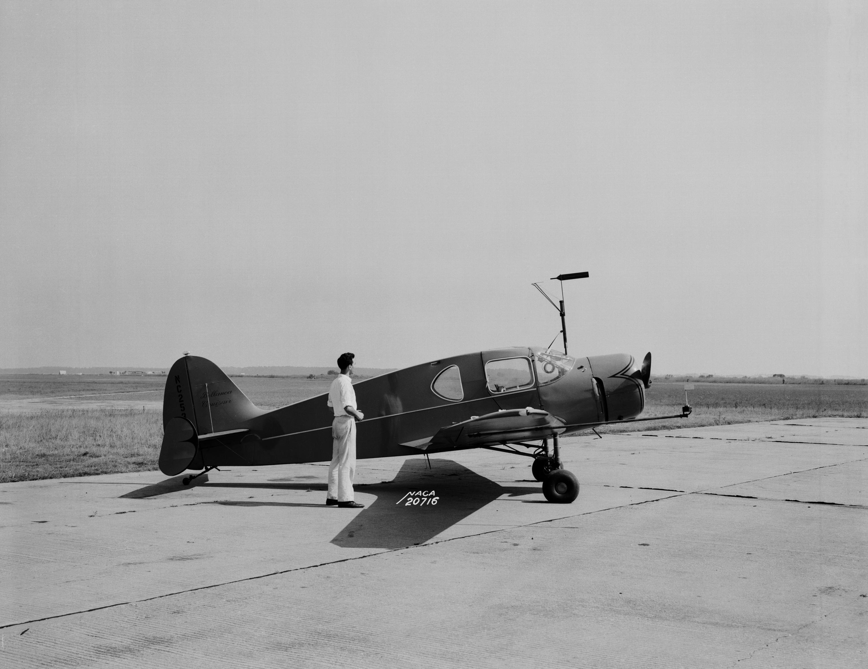 Bellanca 14-9 Junior (Cruisair Jr.): The NACA had two Bellanca 14-9 Juniors for flying qualities evaluation, this aircraft replacing the first "Cruisair Jr." is being prepared to undergo testing a Langley.